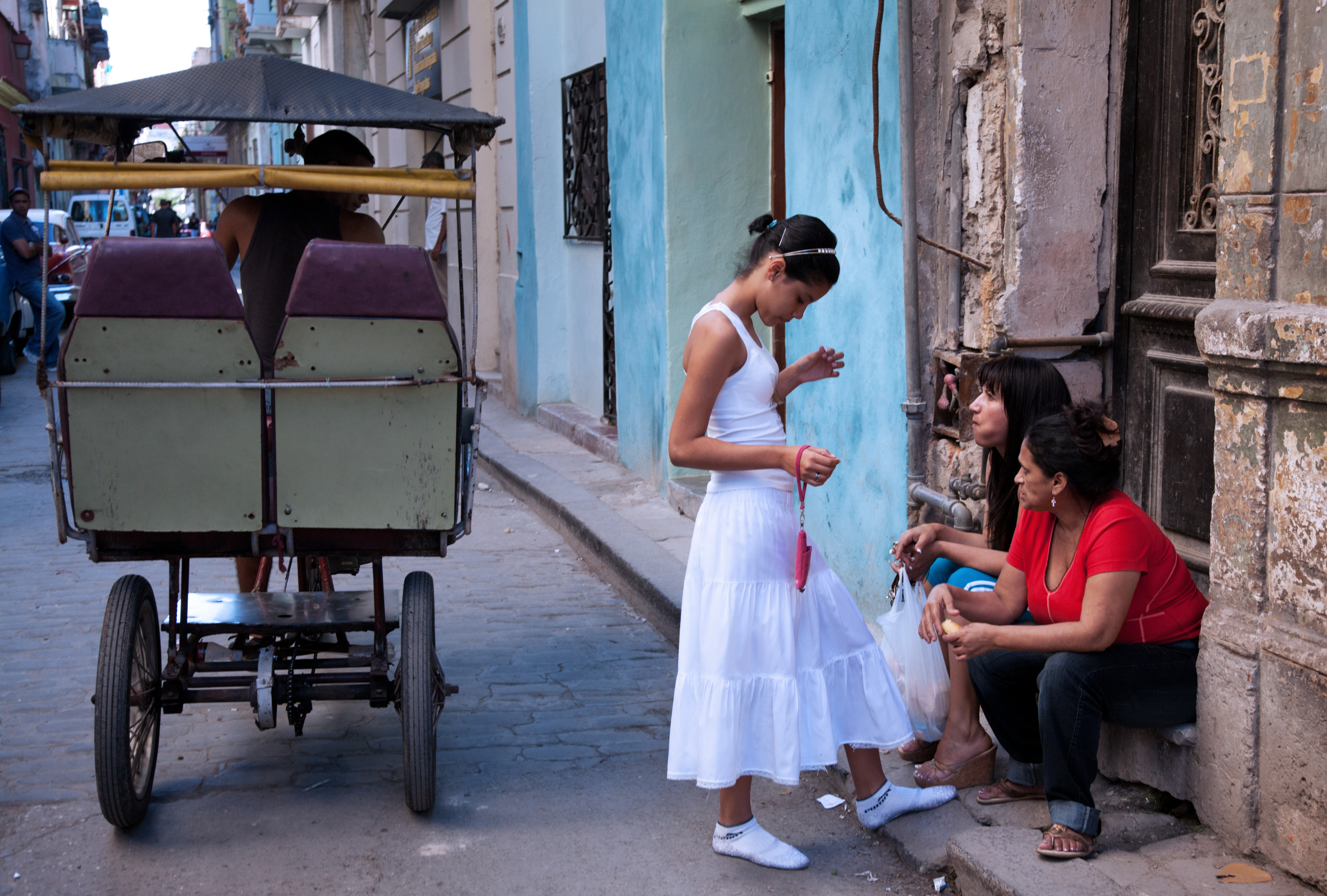 A young girl, freshly reborn and baptized in Santeria. A newborn has to wear white for a whole year. Havana (La Habana), Cuba